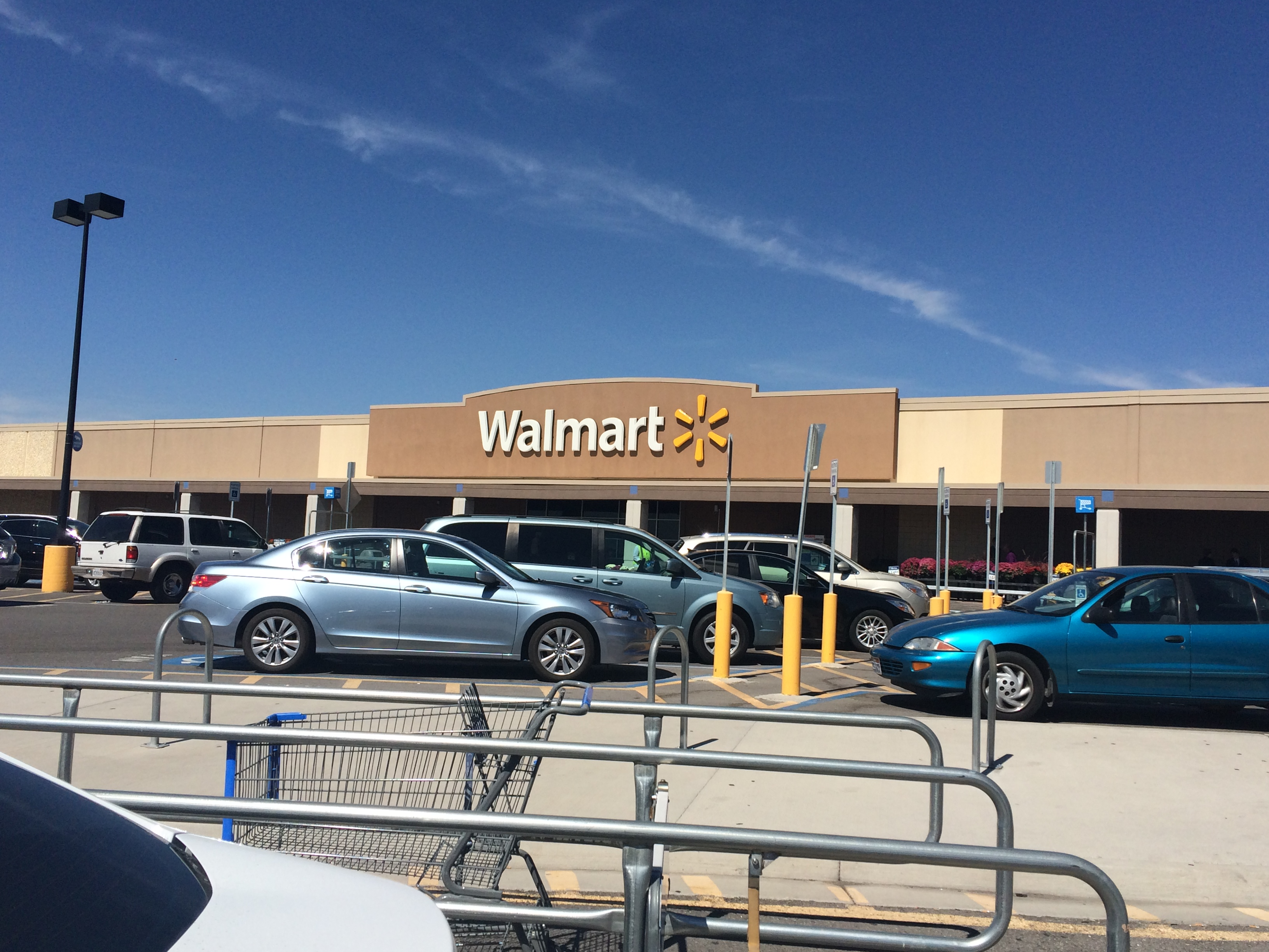 Warmart Store in Salt Lake City,UT